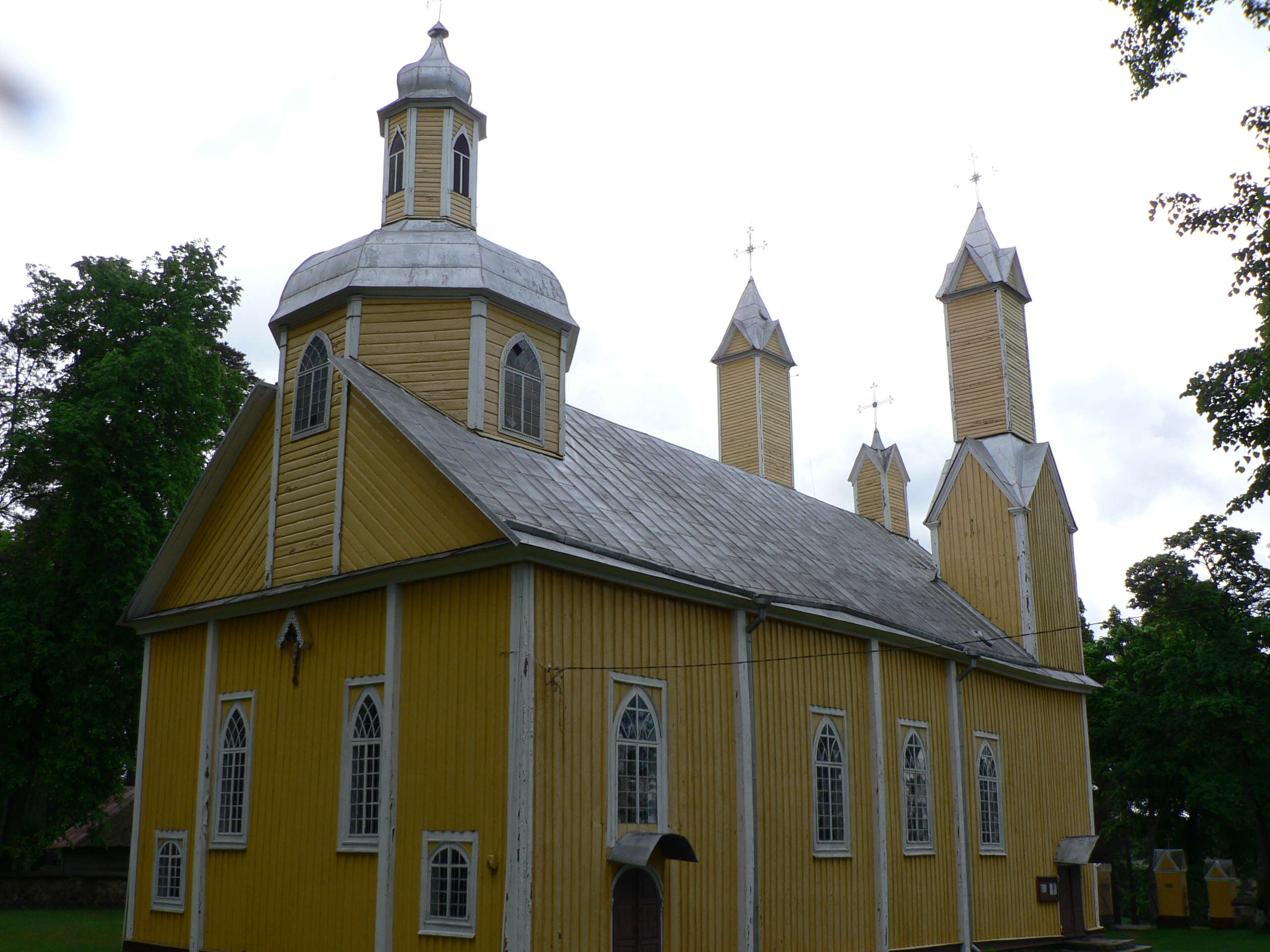 The wooden church in Marcinkonys, Lithuania. Author: Wojsyl, 2005